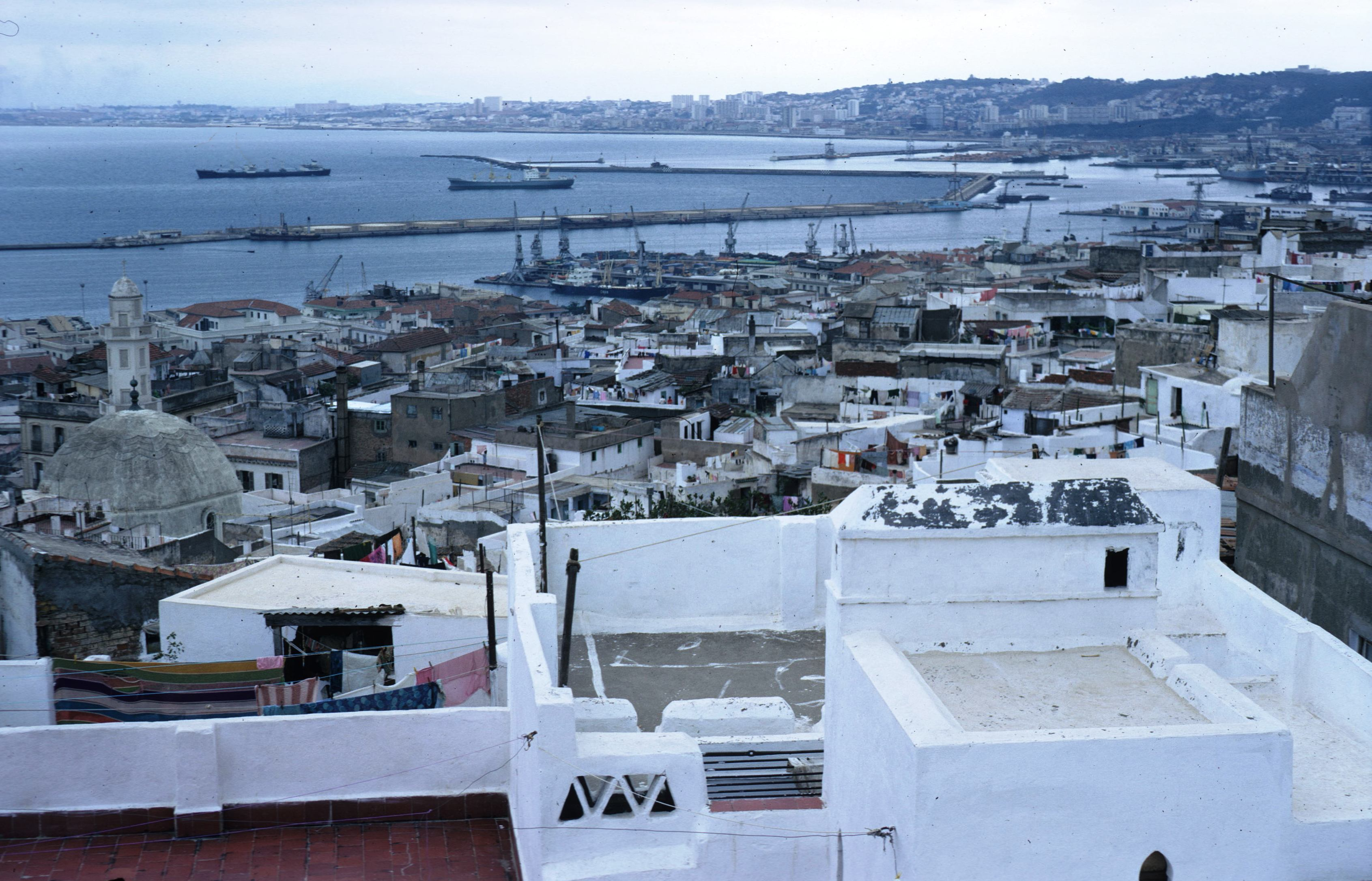 Casbah of Algiers, Algeria